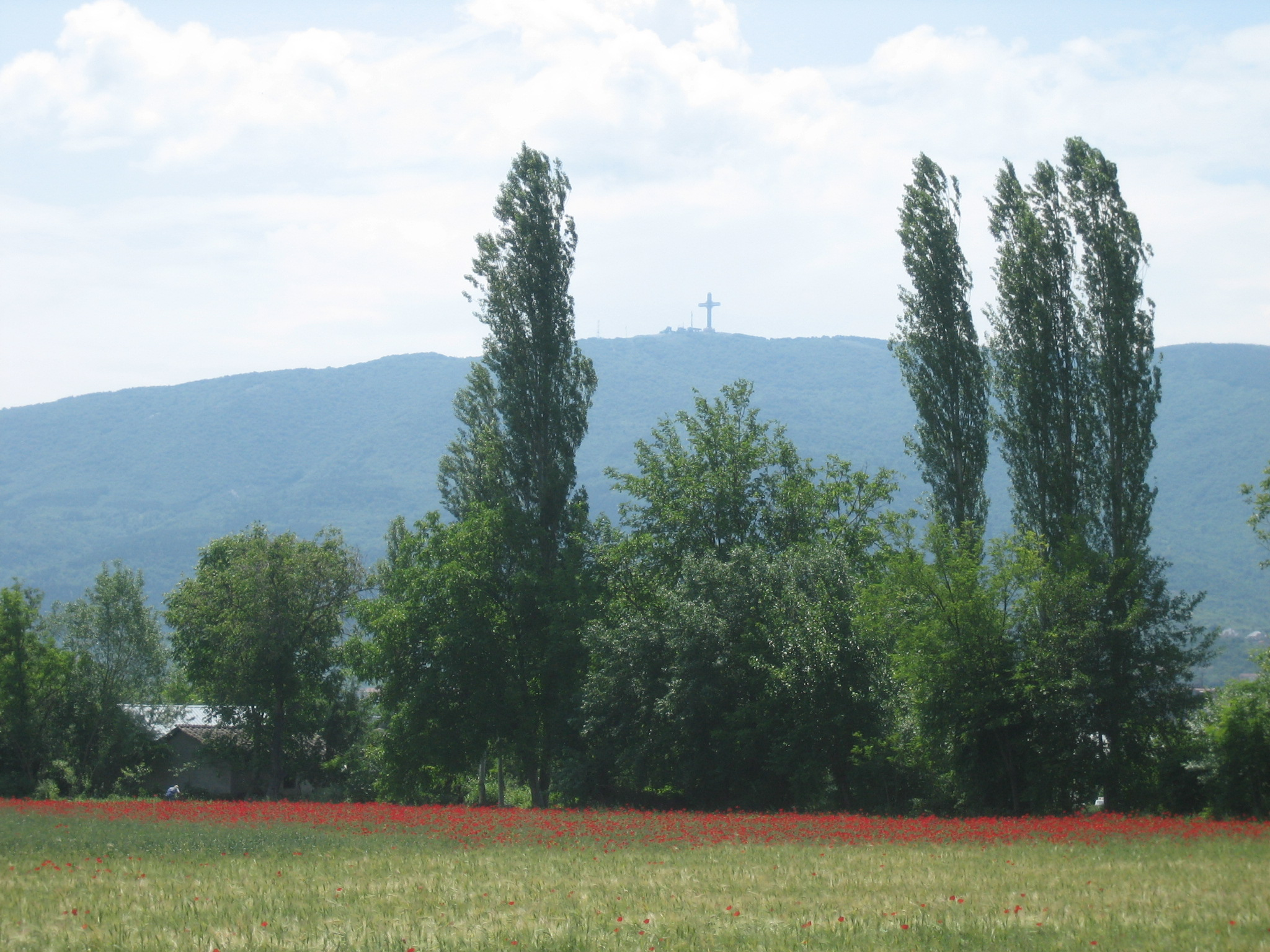 Wild poppy fields are scattered throughout the neighborhood. The village, Bardovci, about 3 kilometers northwest of downtown Skopje, is famous for them.